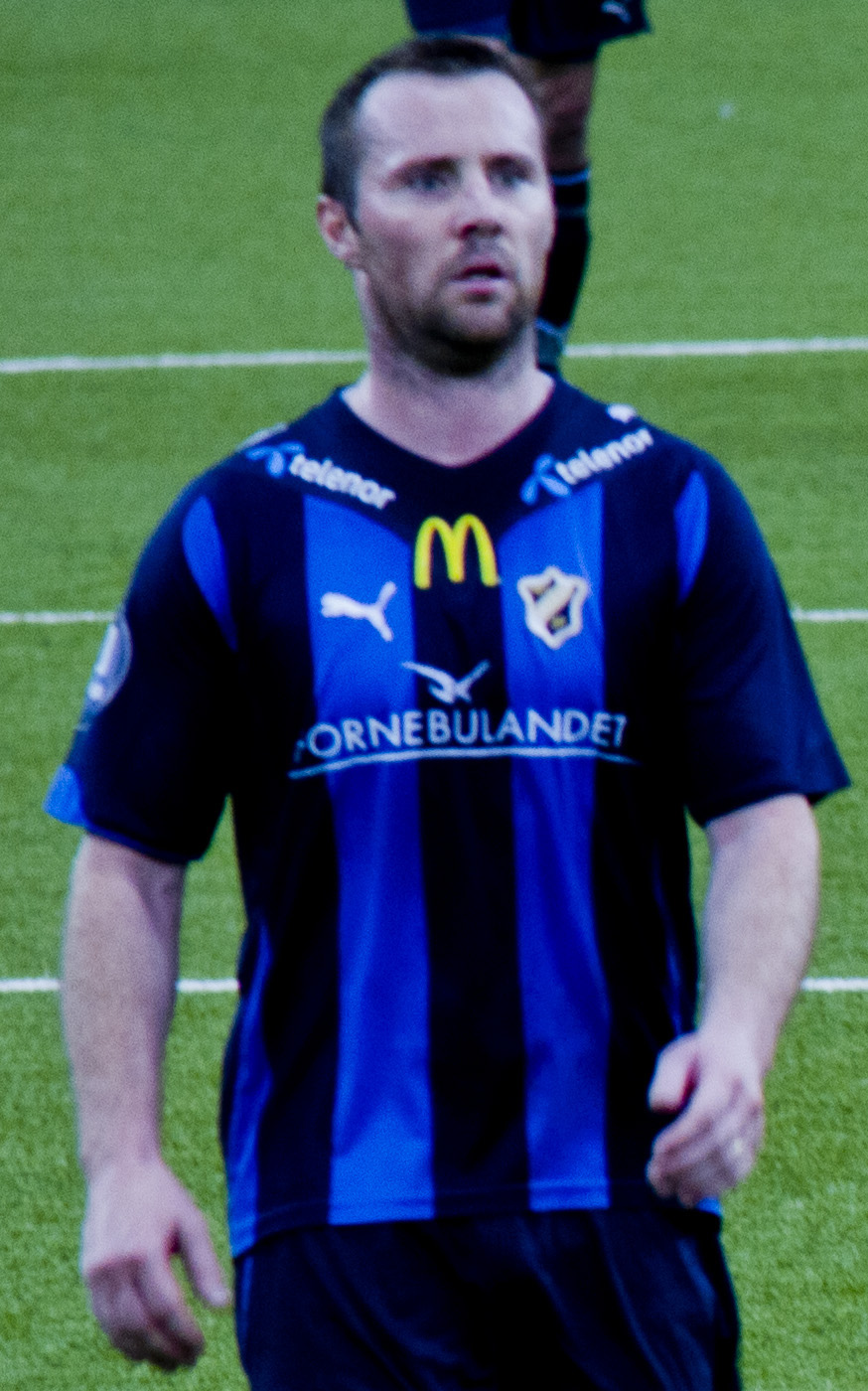 Veigar Páll Gunnarsson after Stabæk-loss against Sogndal, May 16th 2011.